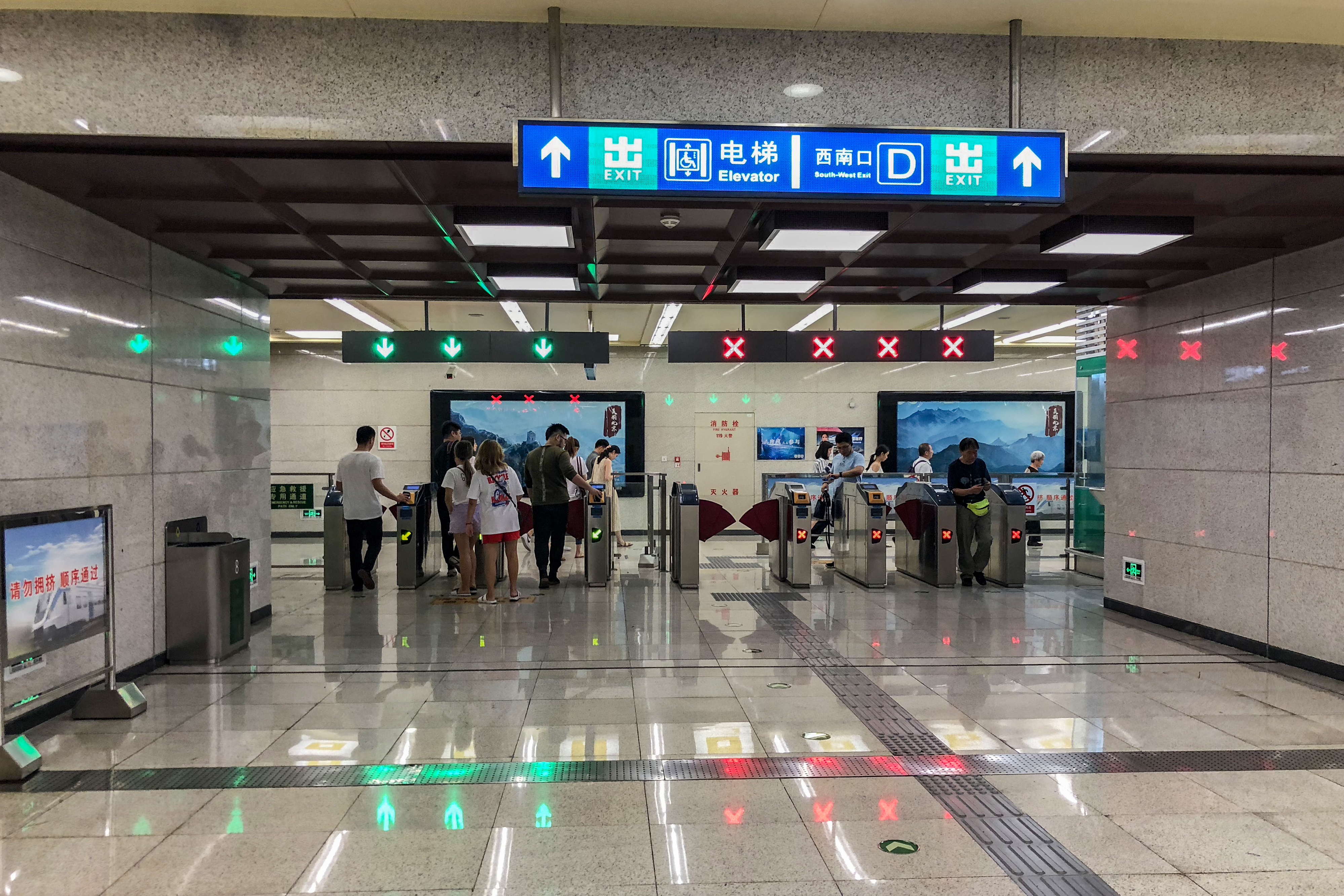 Only one exit is in this part.